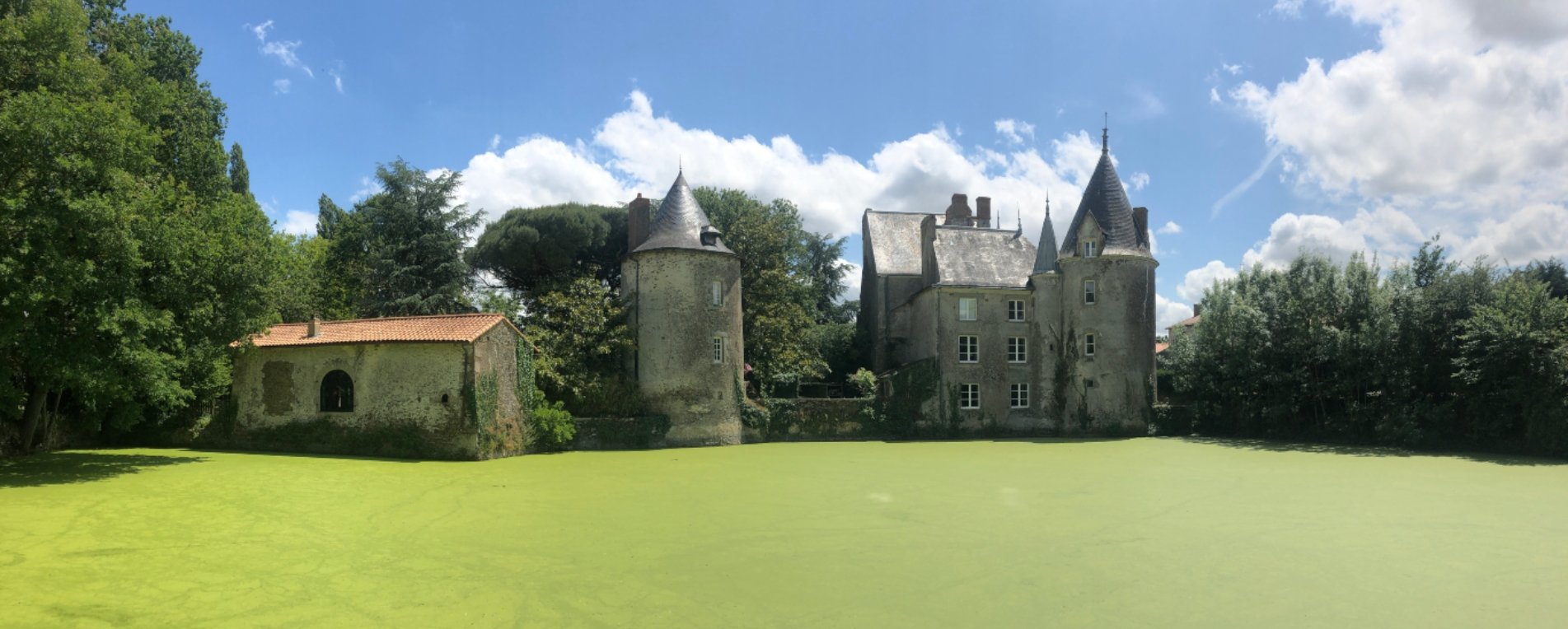 View from the pigeonry